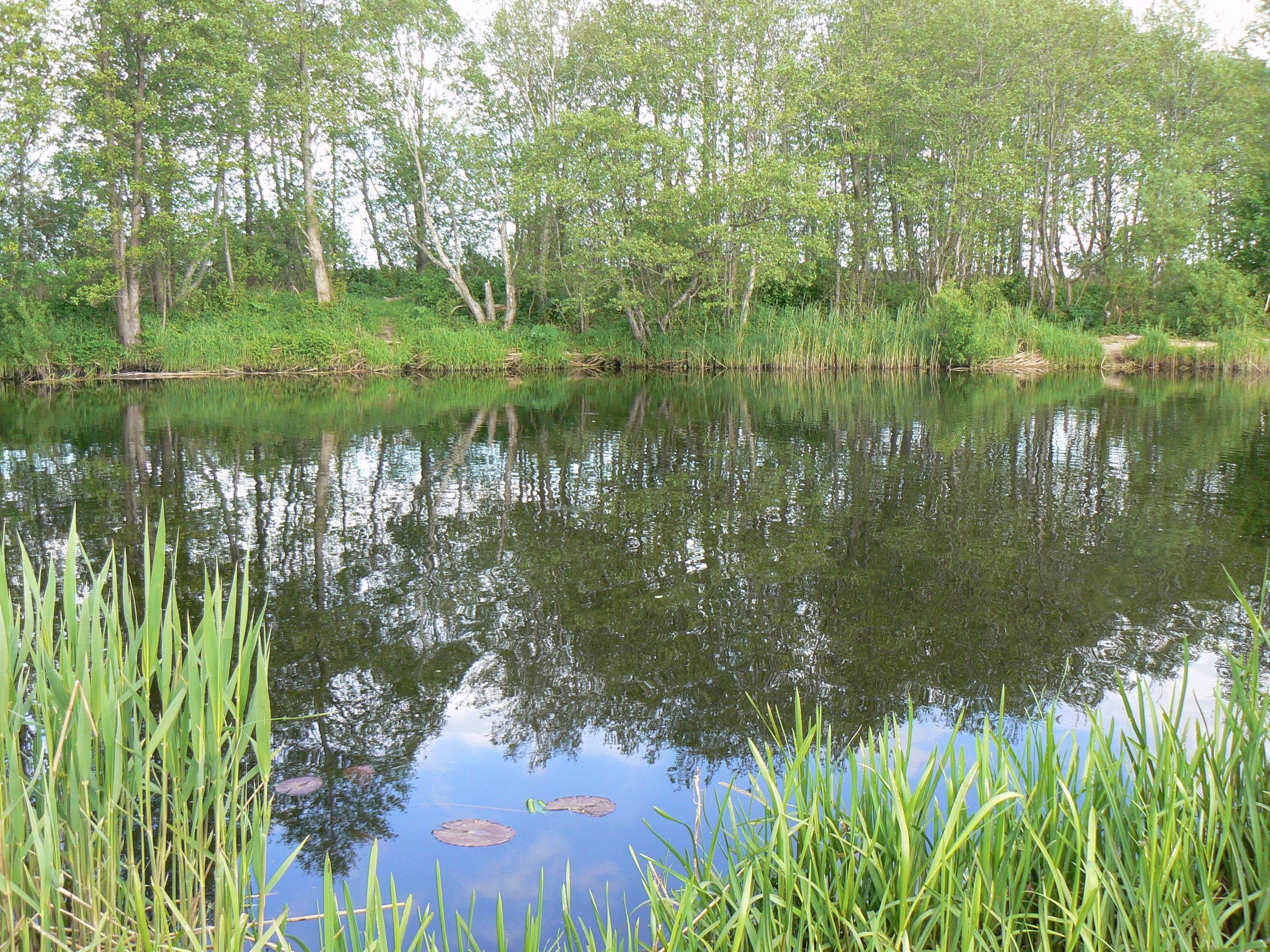 Tenenys